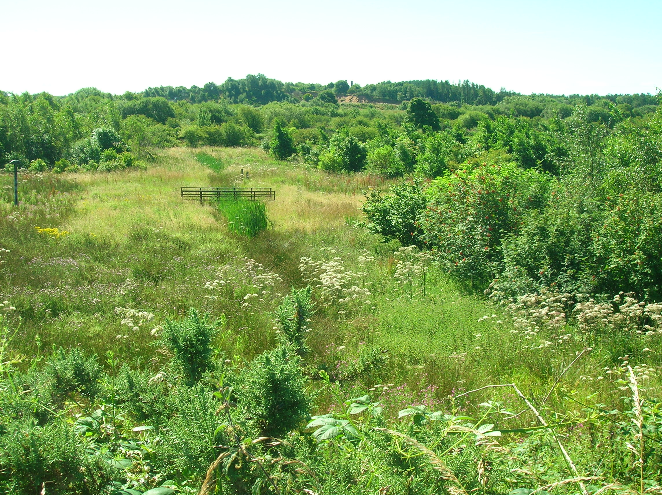 The Misk Knowe sand dunes and old Bog Farm, Ardeer, North Ayrshire, Scotland